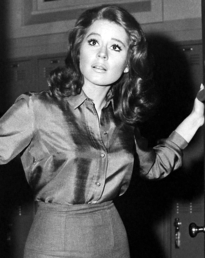 Photo of Sherry Jackson in a guest starring role in the television program Mr. Novak.